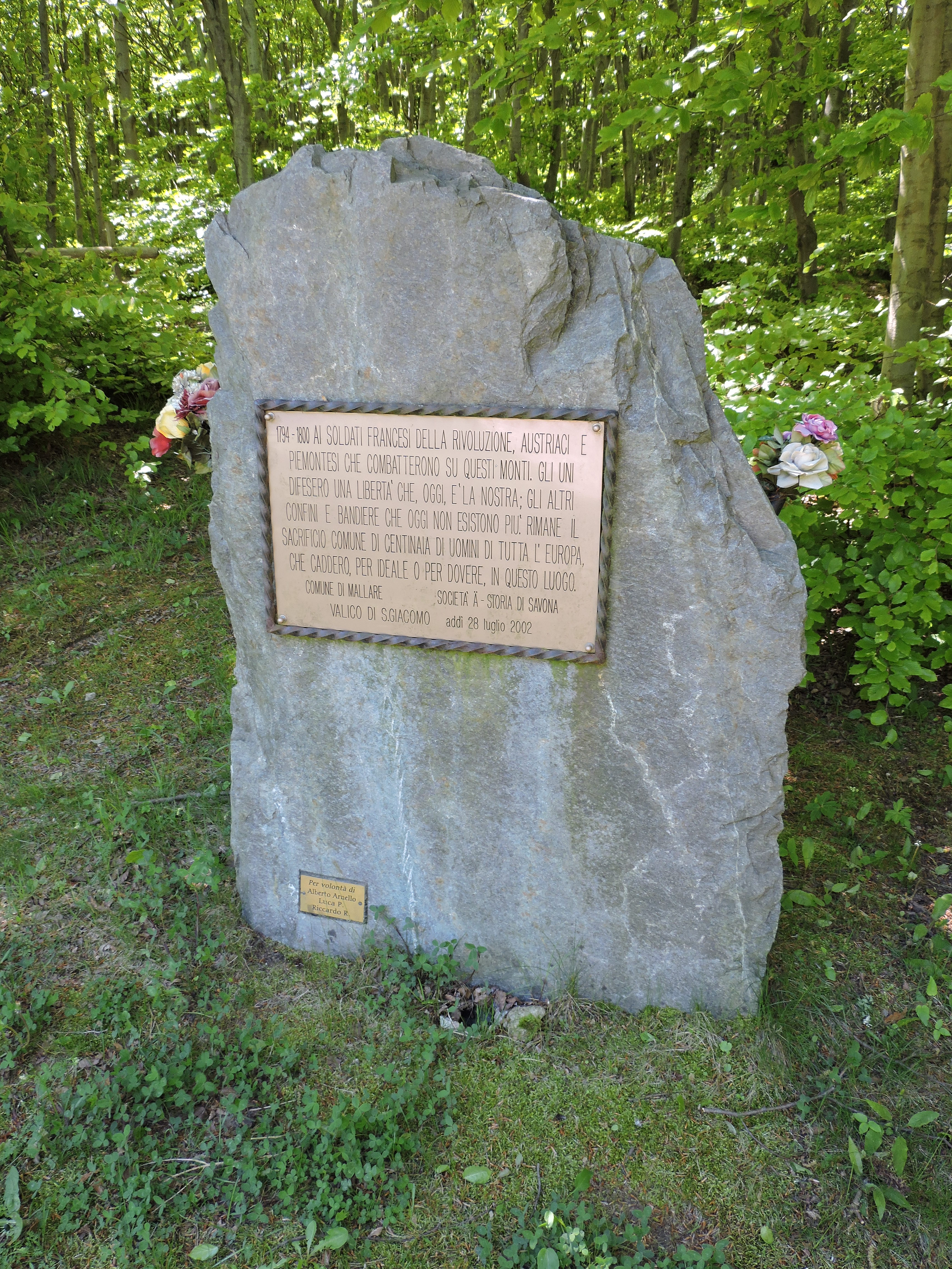 Colla di San Giacomo (Ligurian Alps, Italy): Napoleonic war memorial